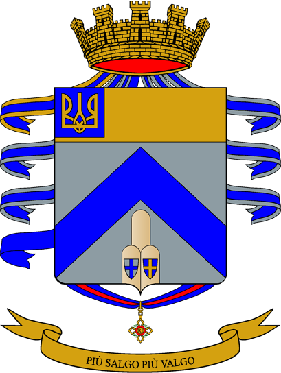 Coat of Arms of the 6° Alpini Regiment; Italian Army.